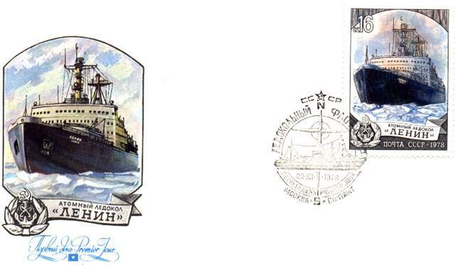 First day cover with a postage stamp of Icebreaker "Lenin", 1978